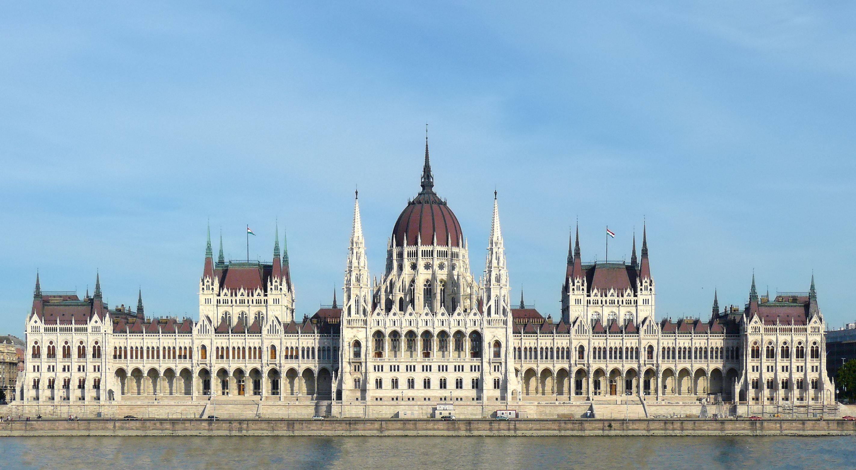 Renovated Parliament Building Hungary, Budapest. Taken on 2009.09.20.